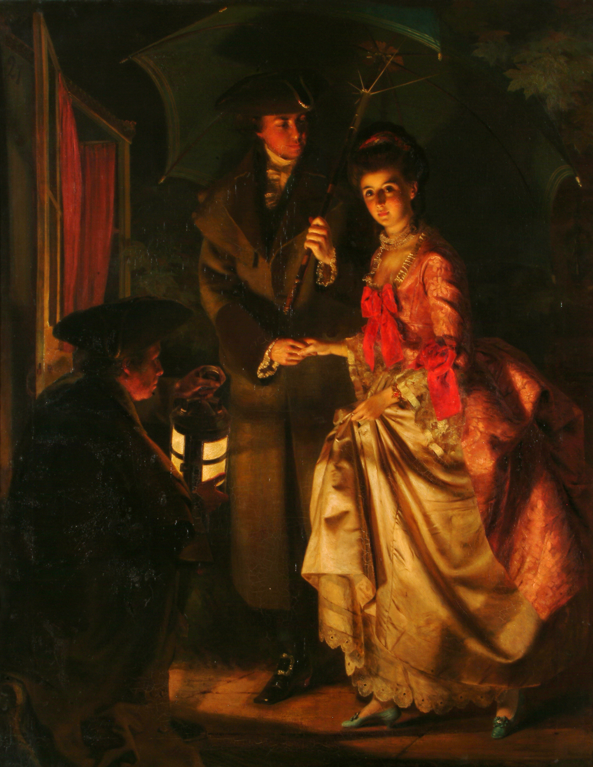 Barrett, Jerry; Sheridan Assisting Miss Linley on Her Flight from Bath; Brighton and Hove Museums and Art Galleries